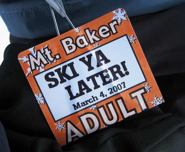 Mount Baker, Washington, area ski pass.